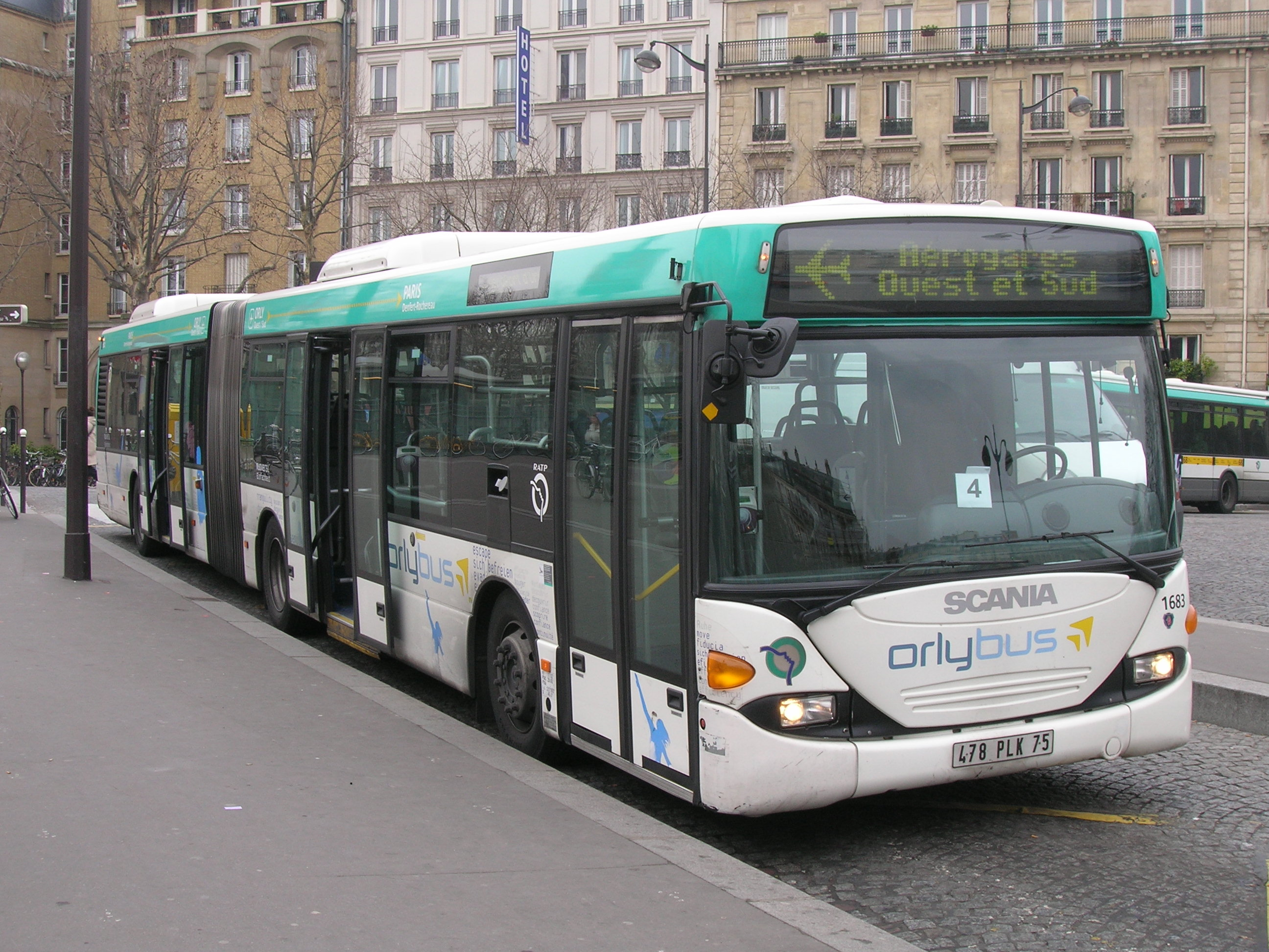 Scania CN94UA OmniCity bus (#1683) in Paris, France. Year built 2003.